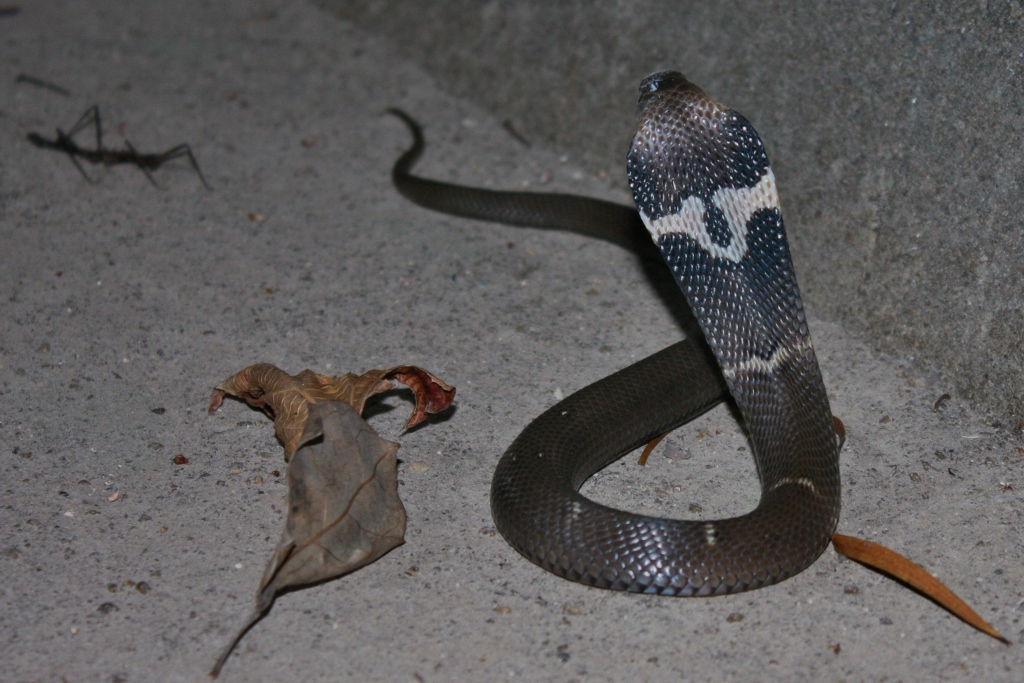 The back of a hood of a Chinese cobra (Naja atra). Found inside a water catchment on Lantau.